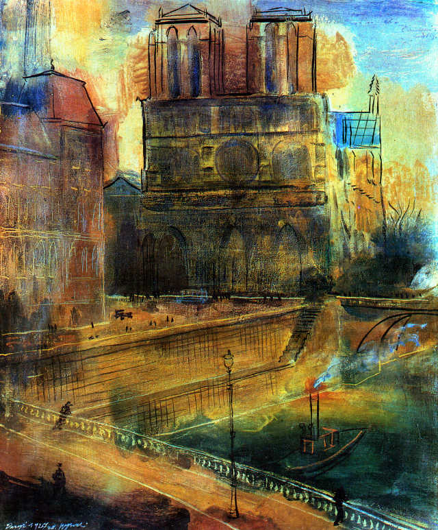 Notre Dame